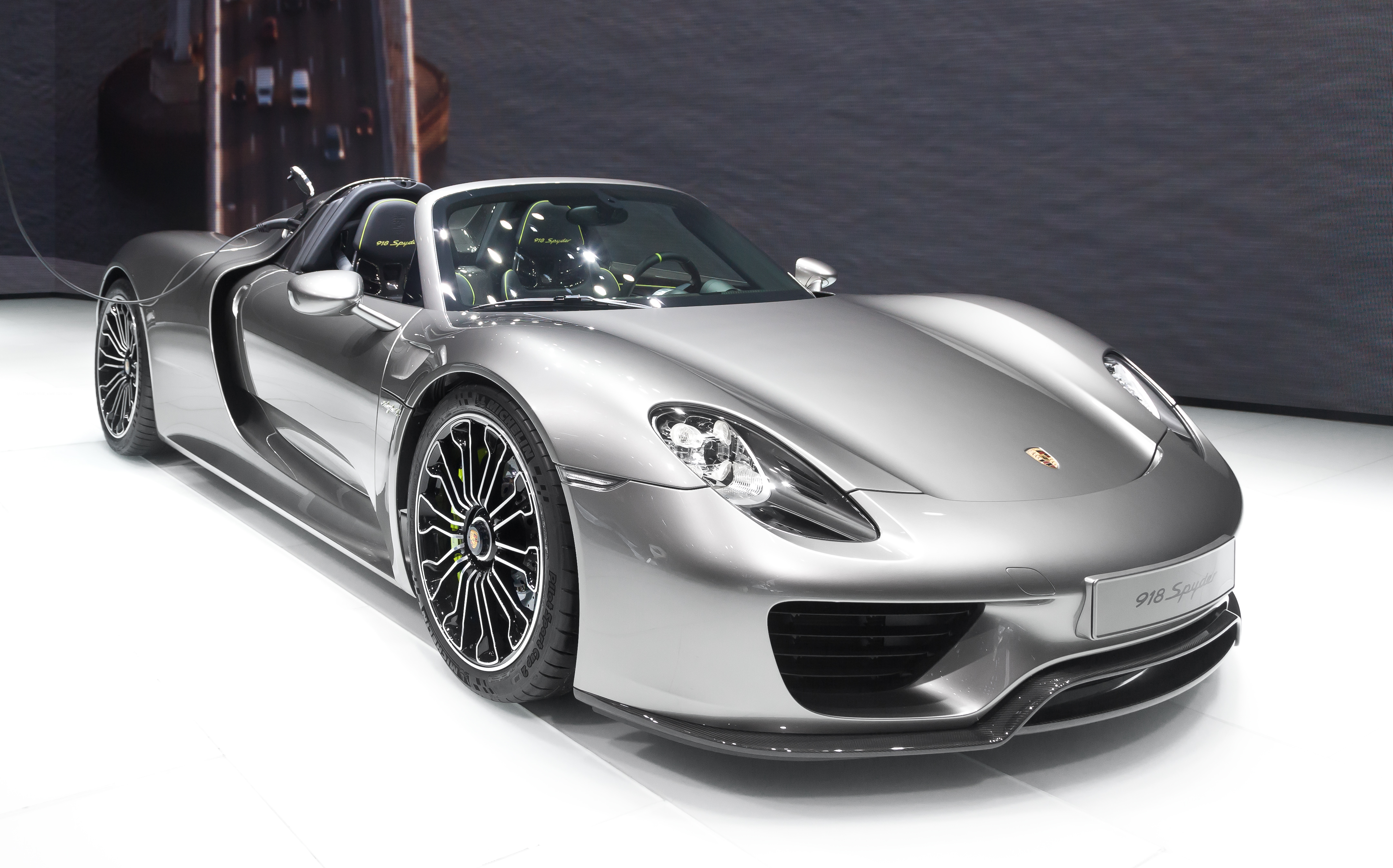 Porsche 918 Spyder at Frankfurt Motor Show 2013 in Frankfurt, Germany